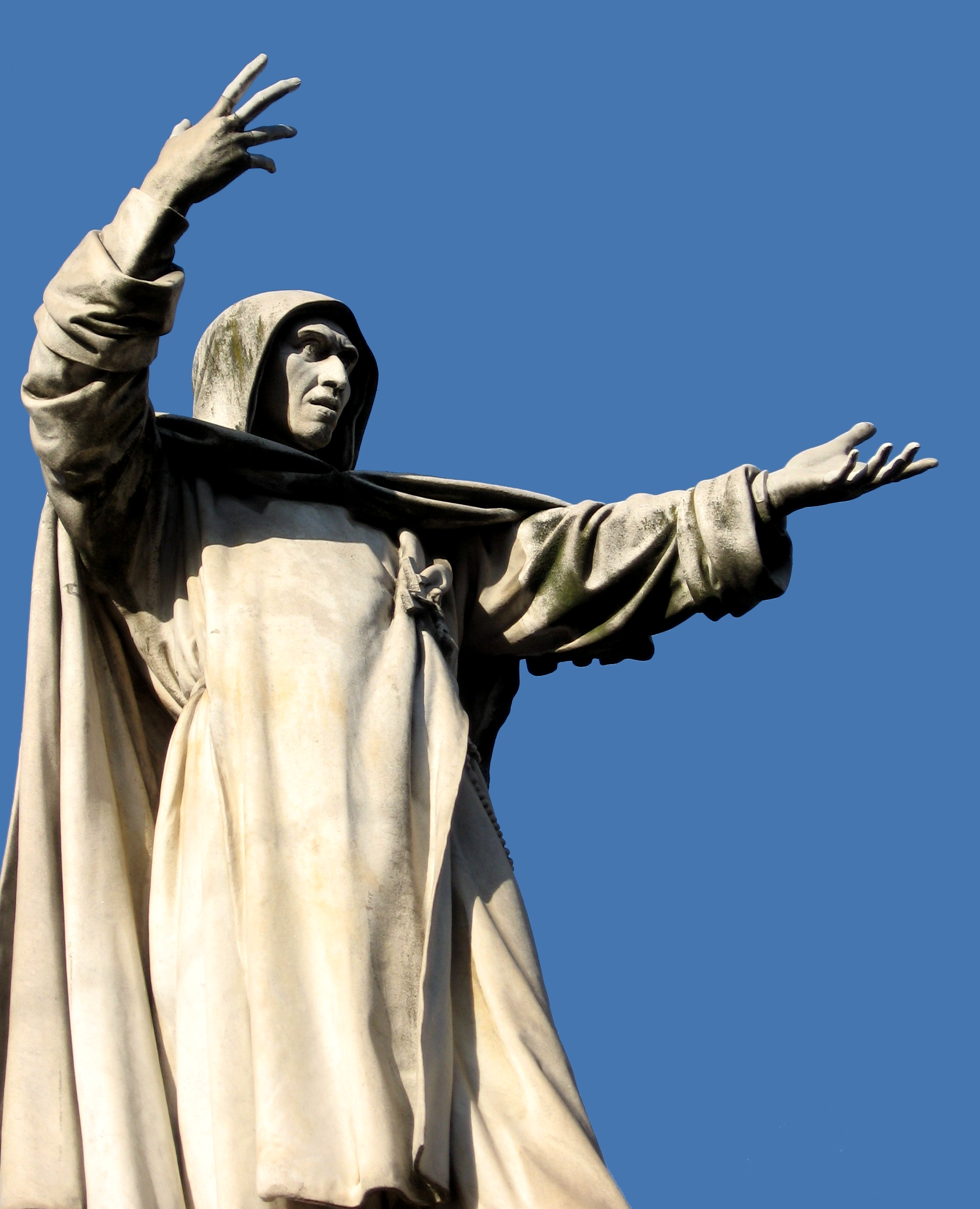 Savonarola monument, Ferrara.